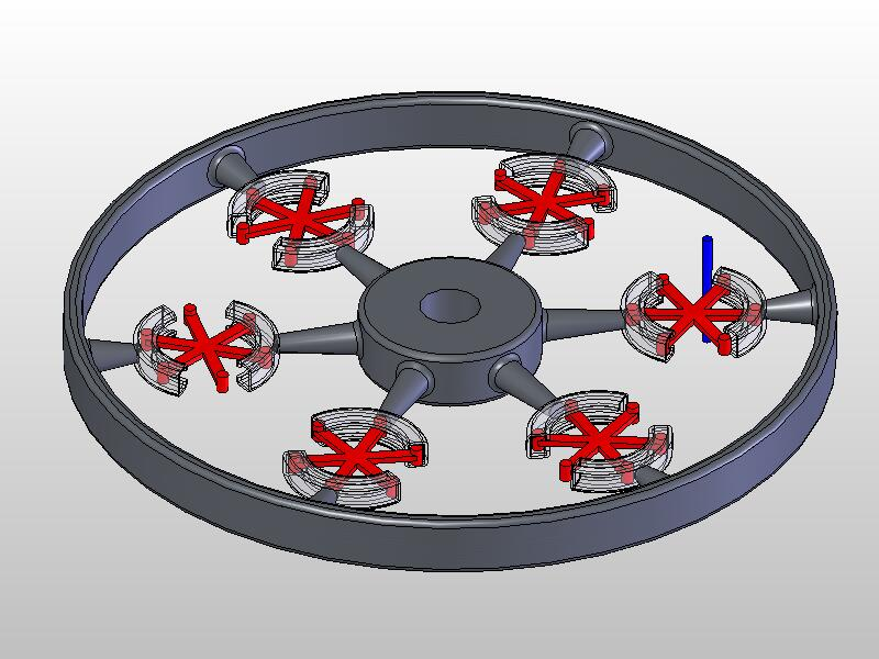 3D model of a wheel equiped with a "shaftpasser" mechanism as described in Richard Feynmann's book "Surely You're Joking, Mr. Feynman!"